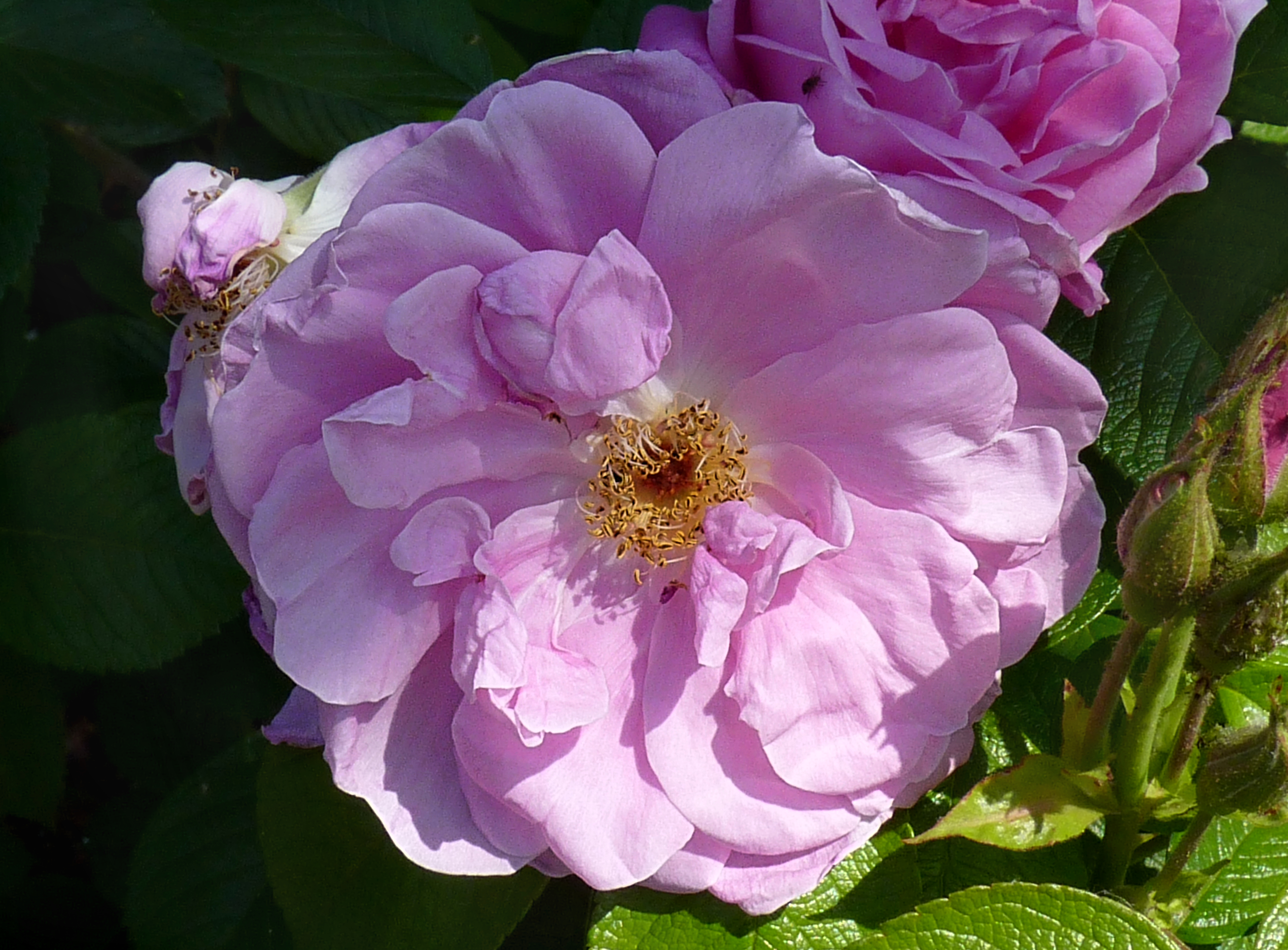 Rosa 'Sarah Van Fleet' (Van Fleet, before 1922), in the international rose garden of Kortrijk, Belgium.